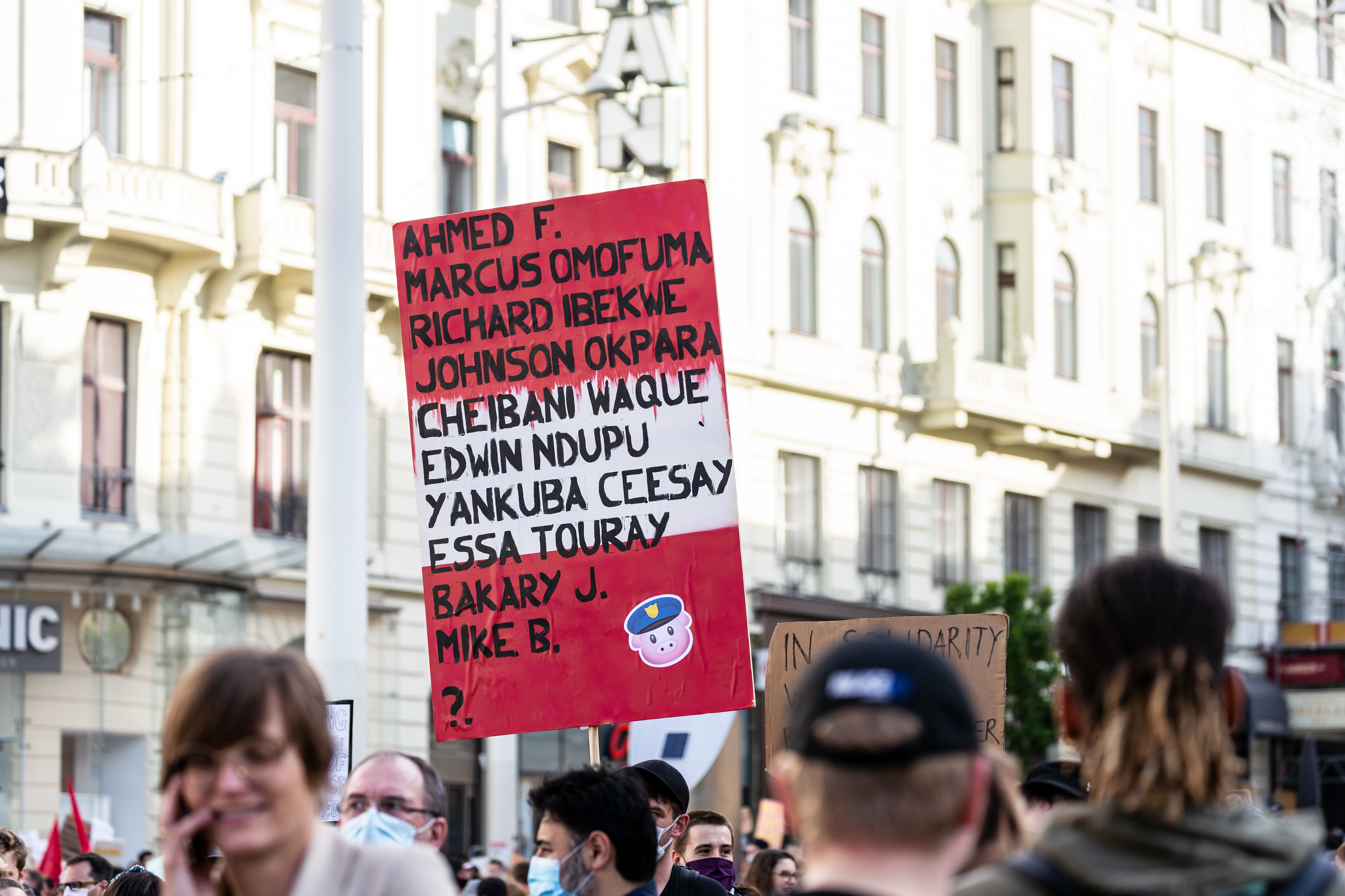 Protest Black Lives Matter (see also George Floyd protests) in Vienna,Austria.